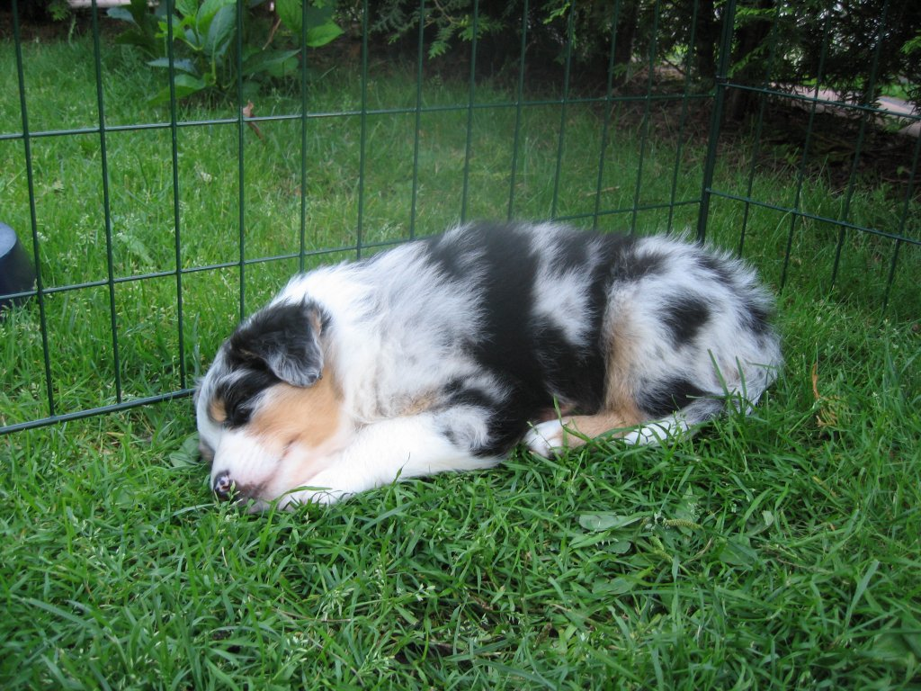 Australian shepherd puppy blue merle